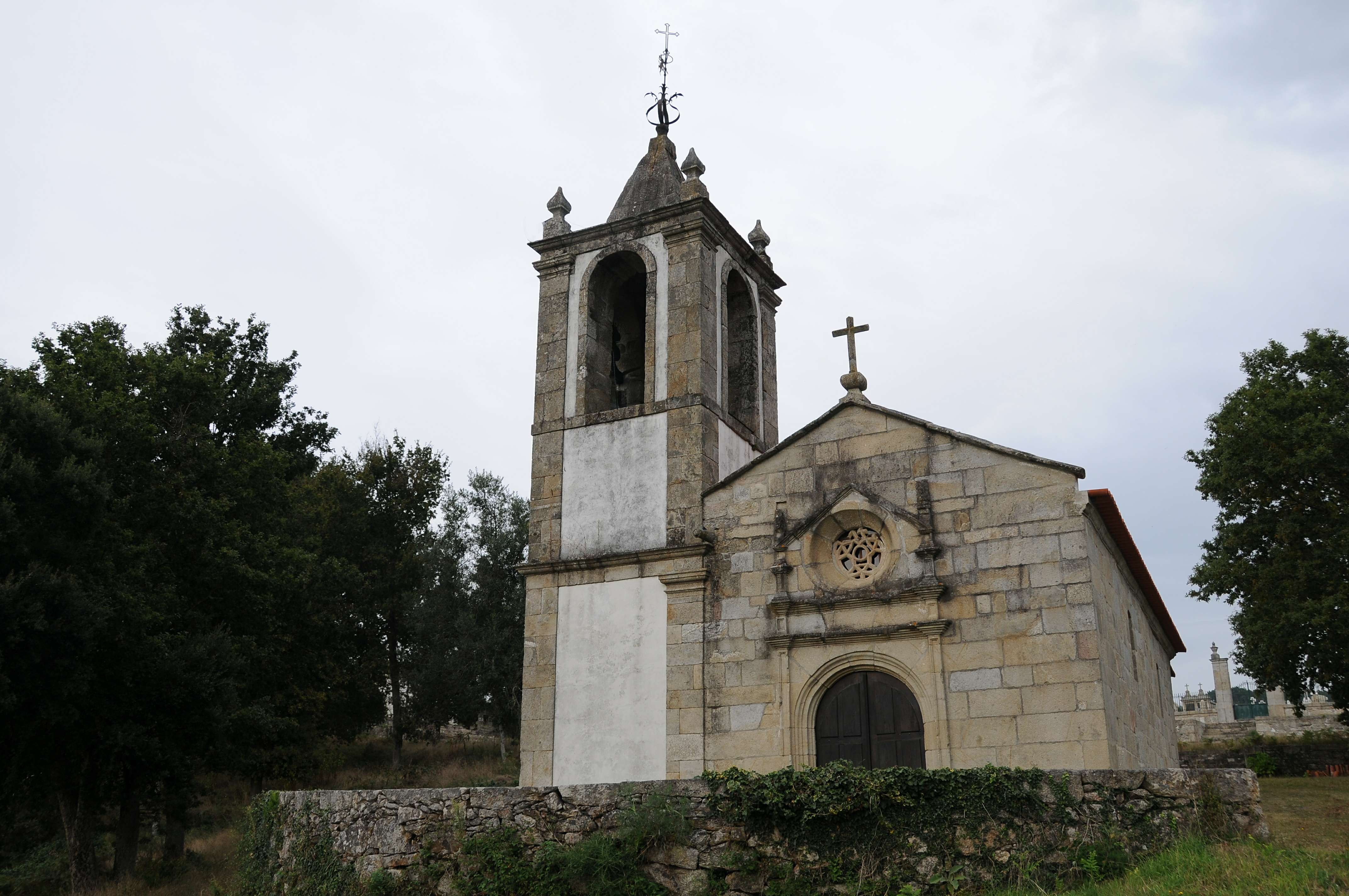 Ceivães Church, in Ceivães, Monção, Portugal